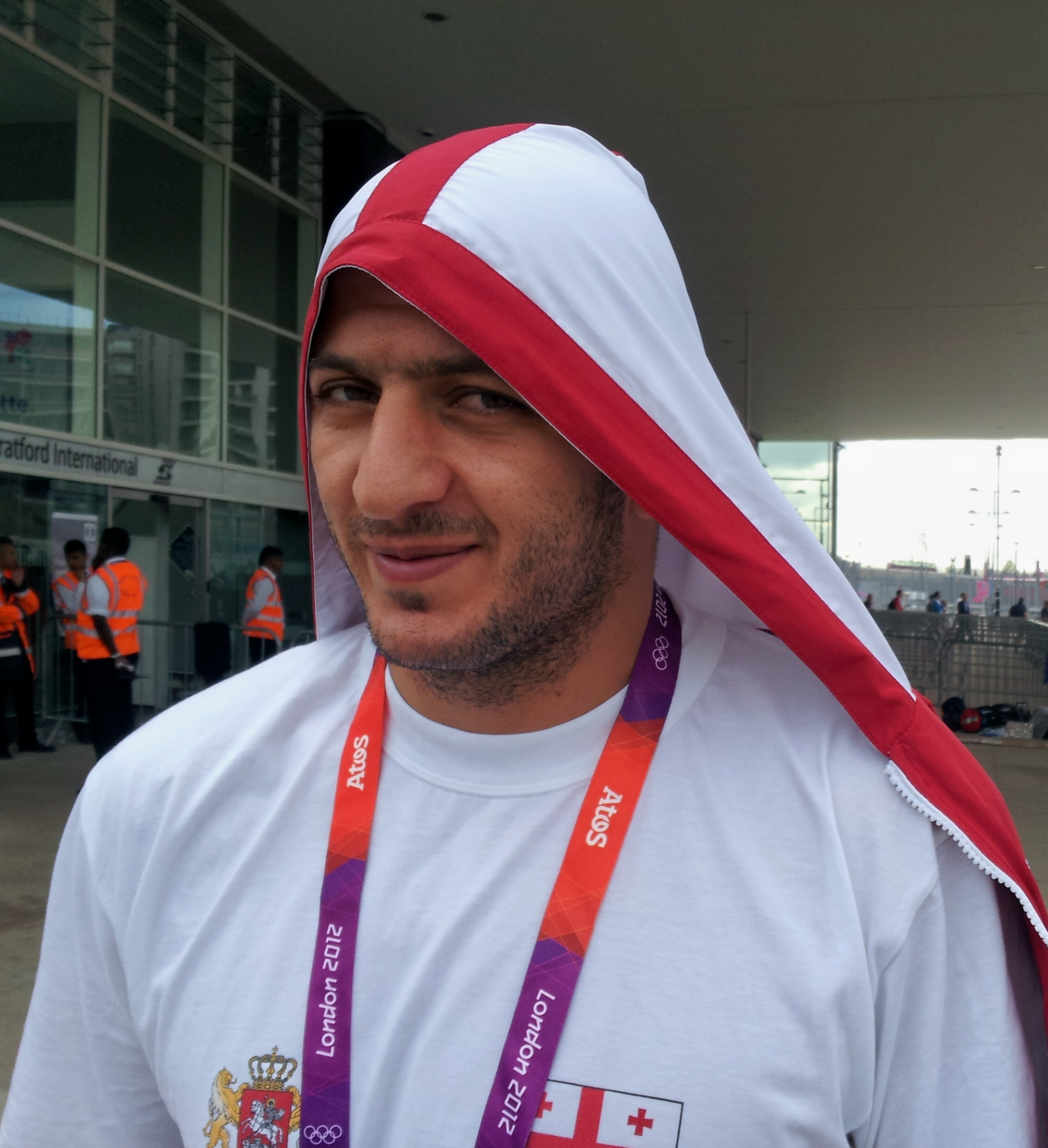 Georgian wrestler Giorgi Gogshelidze, taken at The London 2012 Summer Olympic Games